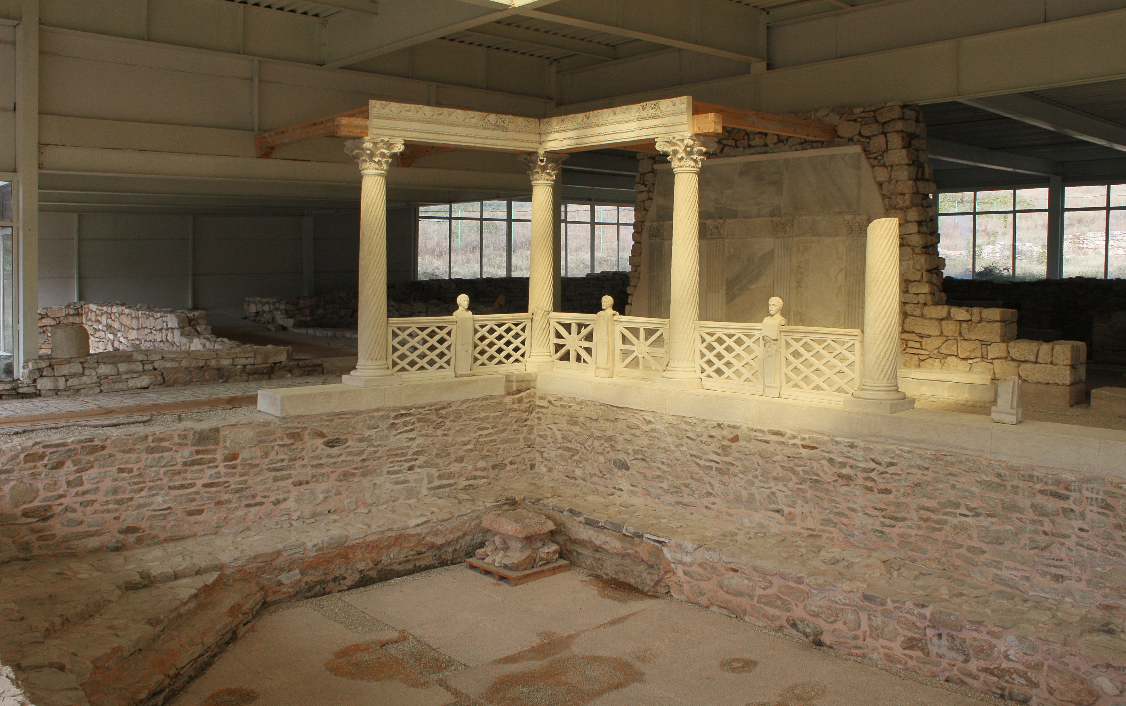 Villa Armira, in the Rhodope Mountains, Bulgaria